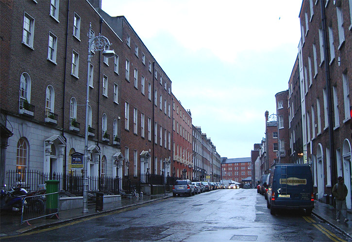 Photograph of Ely Place, Dublin, Ireland, taken by me on 20 January 2009.